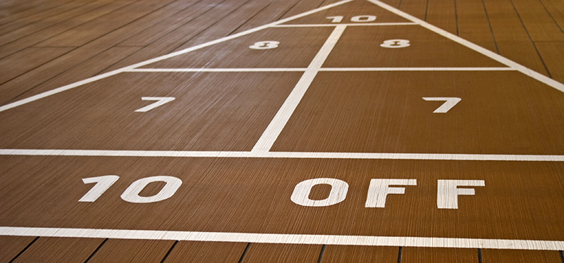 Close up picture of a shuffleboard scoring area on a wooden deck.